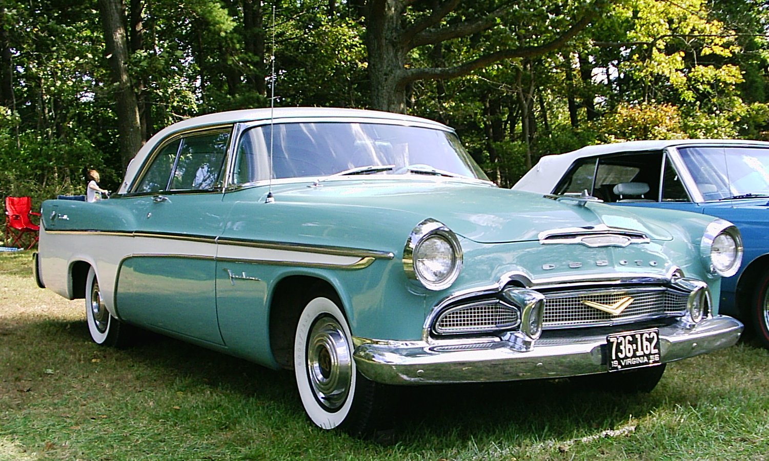 1956 De Soto Firedome 2-door hardtop front view